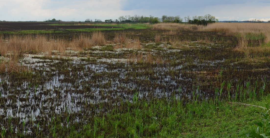 The course of Kösely, an archaic river passing through the Southern Hortobagy National Park (?), Hungary. Kösely főcsatorna. Hajdúszovát mellett található a Kösely - Keleti átvágás, Derecske és Földes felé haladva.